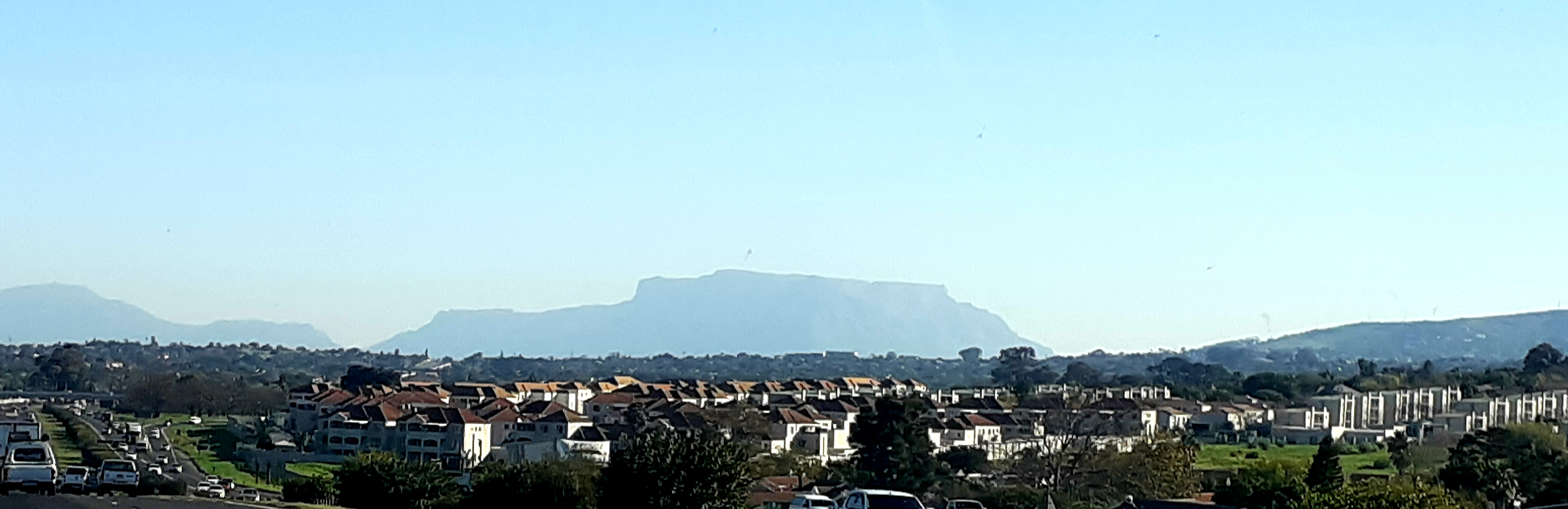 A view of the Vredekloof neighborhood of Brackenfell in the foreground and Table Mountain in the background